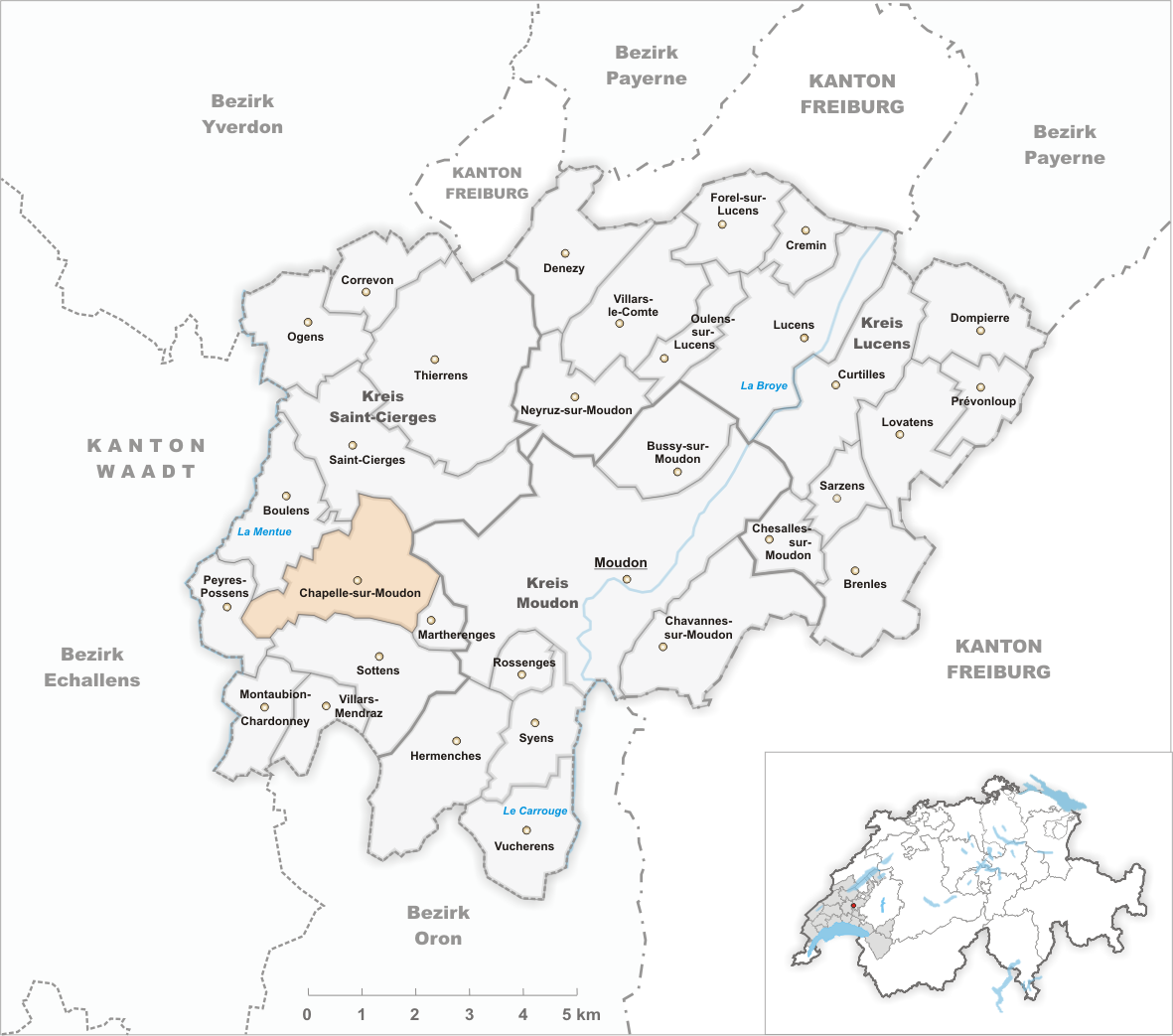 Municipality Chapelle-sur-Moudon